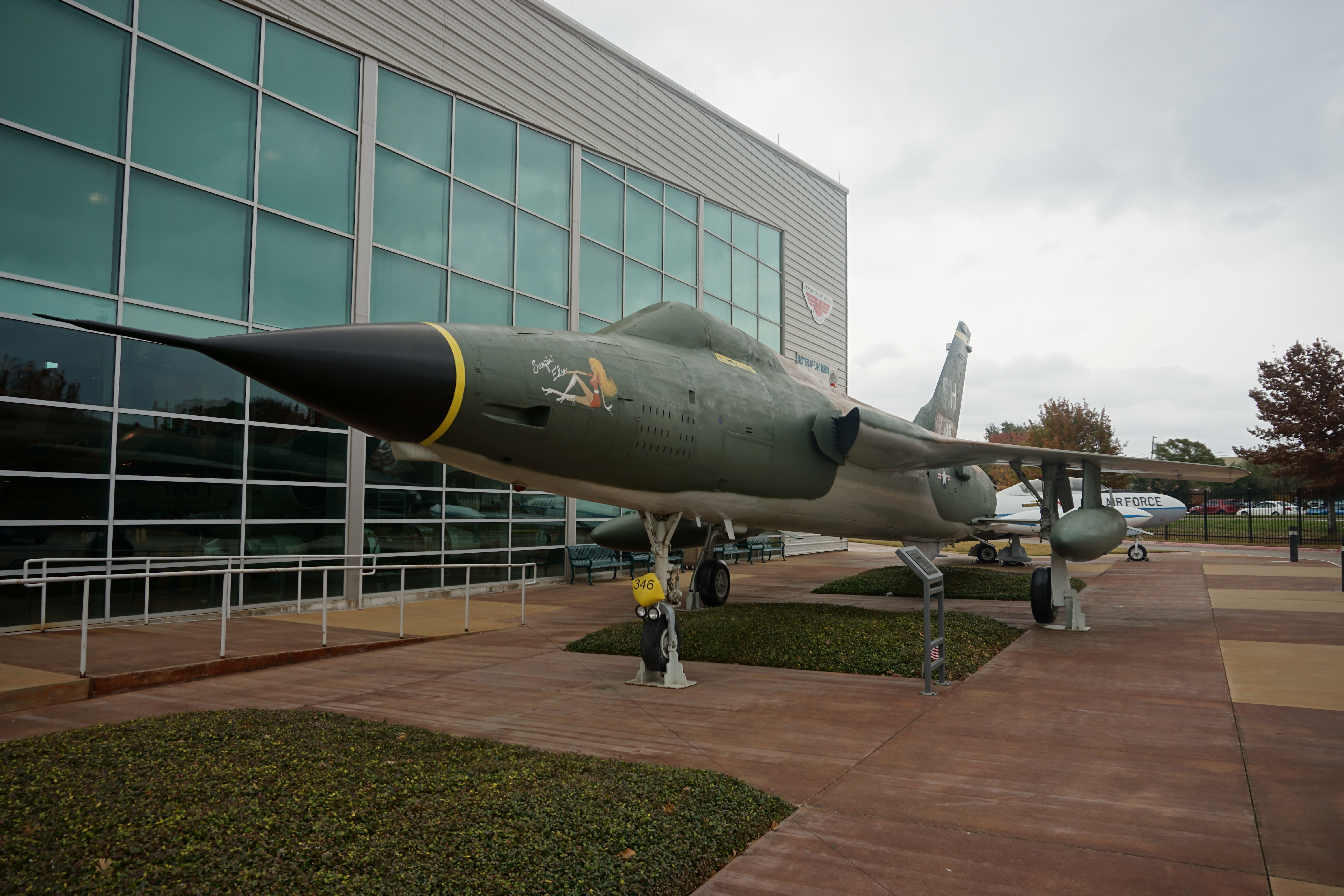 A Republic F-105 Thunderchief on display at the Frontiers of Flight Museum at Dallas Love Field in Dallas, Texas (United States).